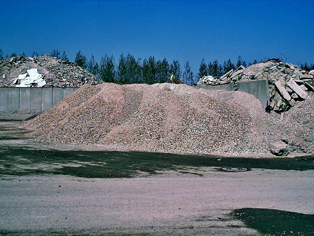 What's left of Ungdomshuset (The Youth House) in Copenhagen, Denmark. Cleared and demolished in march 2007